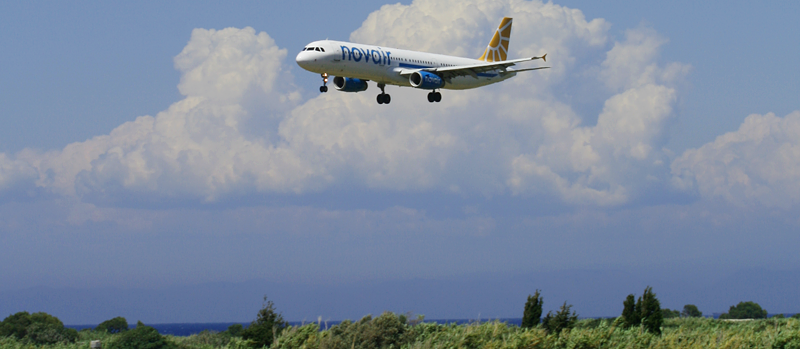 Novair Airbus A321-231 landing on runway RW25 at Rhodes International Airport